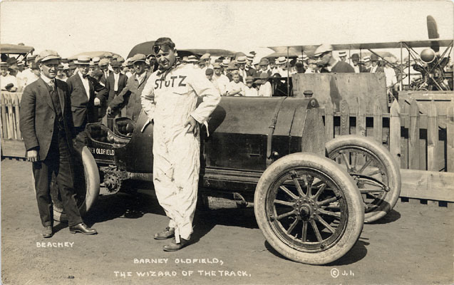 Barney Oldfield posing with race car at the 1915 American Grand Prize and Vanderbilt Cup in San Francisco.